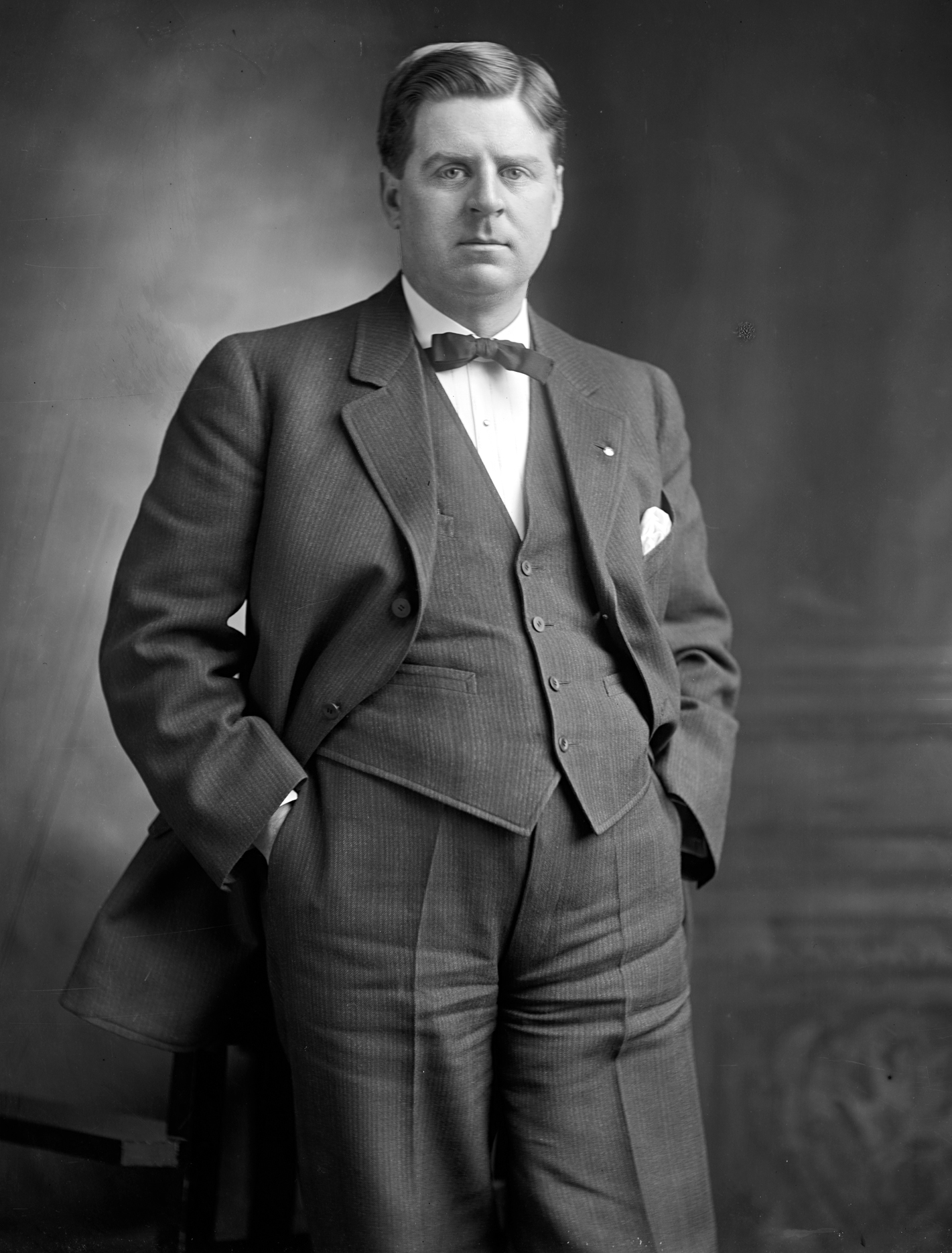 Arthur W. Kopp, US Representative from Wisconsin